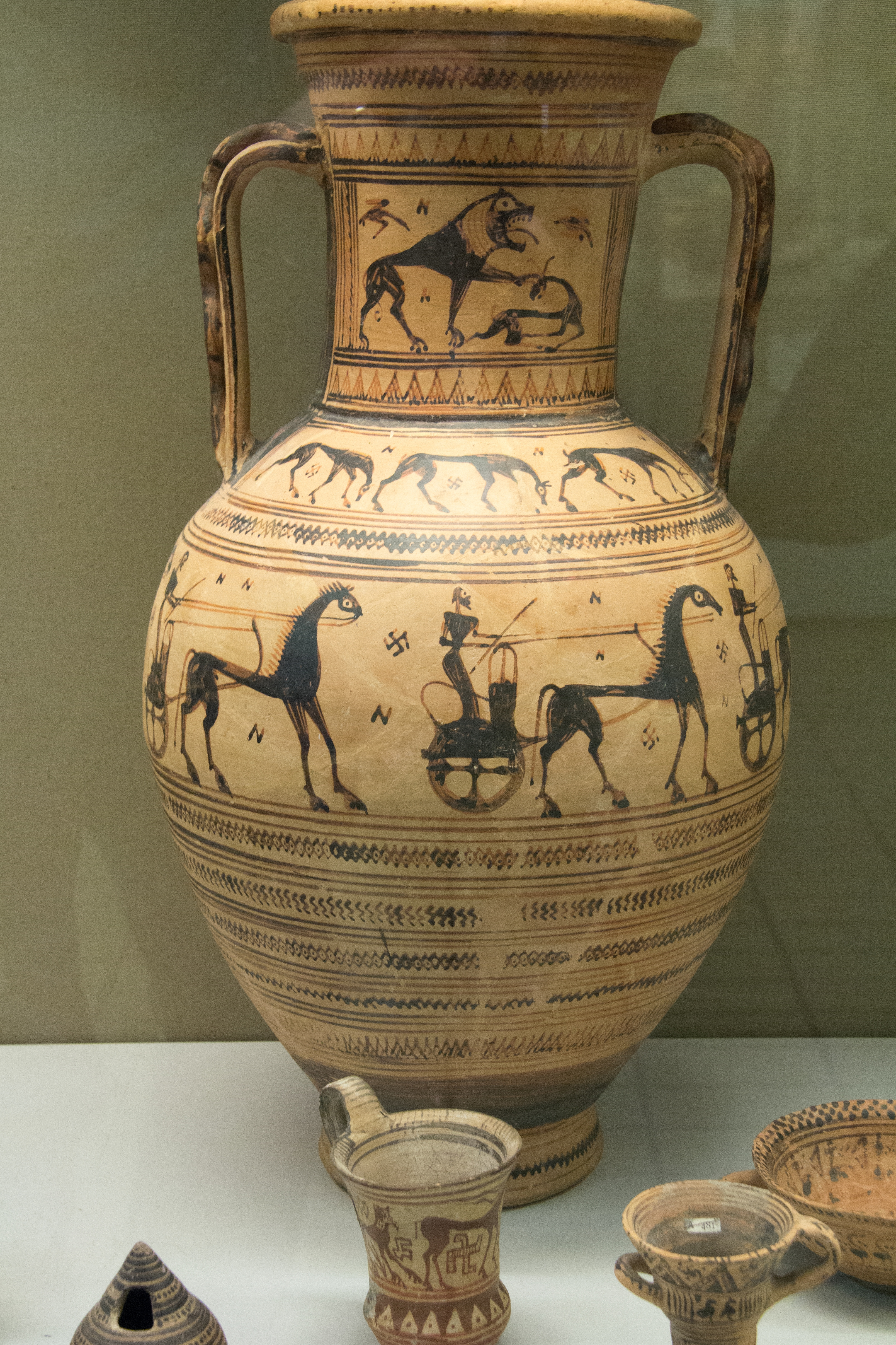 Neck-amphora with chariot procession; on the neck a lion attacks a deer, while more deer graze on the shoulder. Protoatic pottery, made in Athens, about 700 BC. Atributed to the N Painter. From Athens. British Museum, GR 1936.10-17.1.